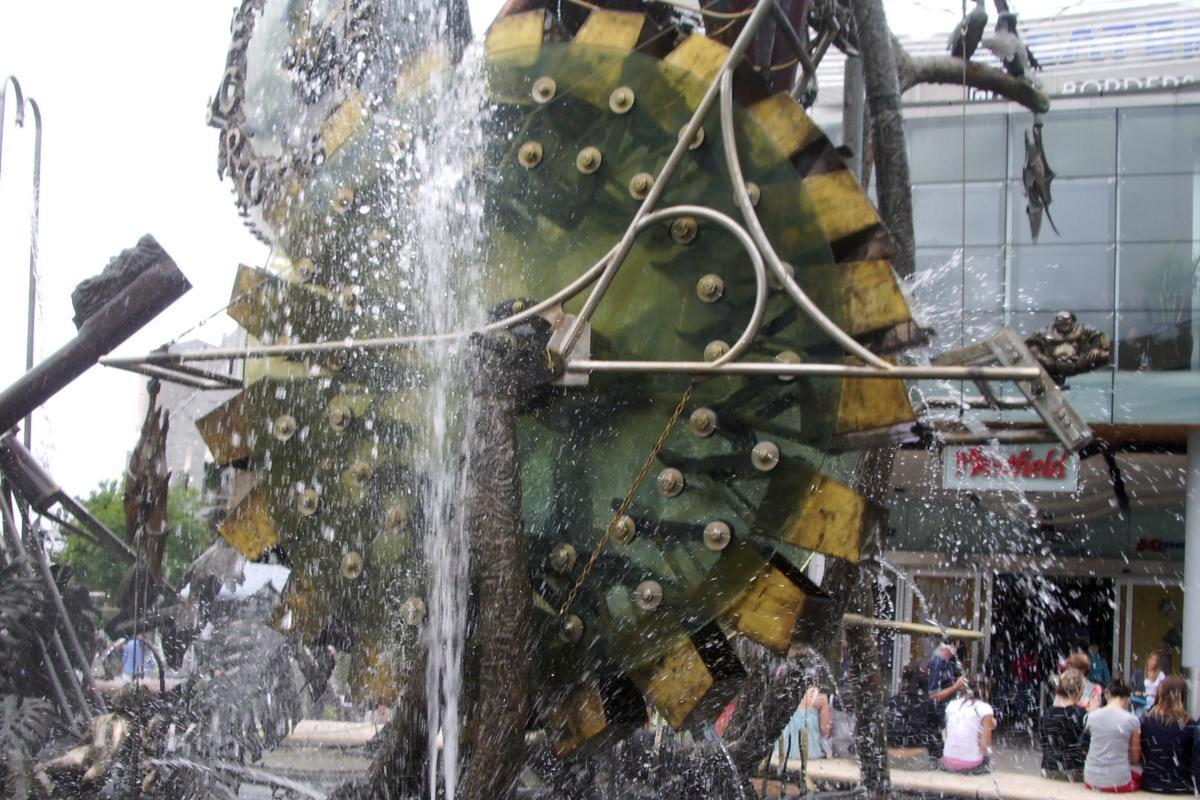 Hornsby water clock: detail of the Chinese water wheel clock